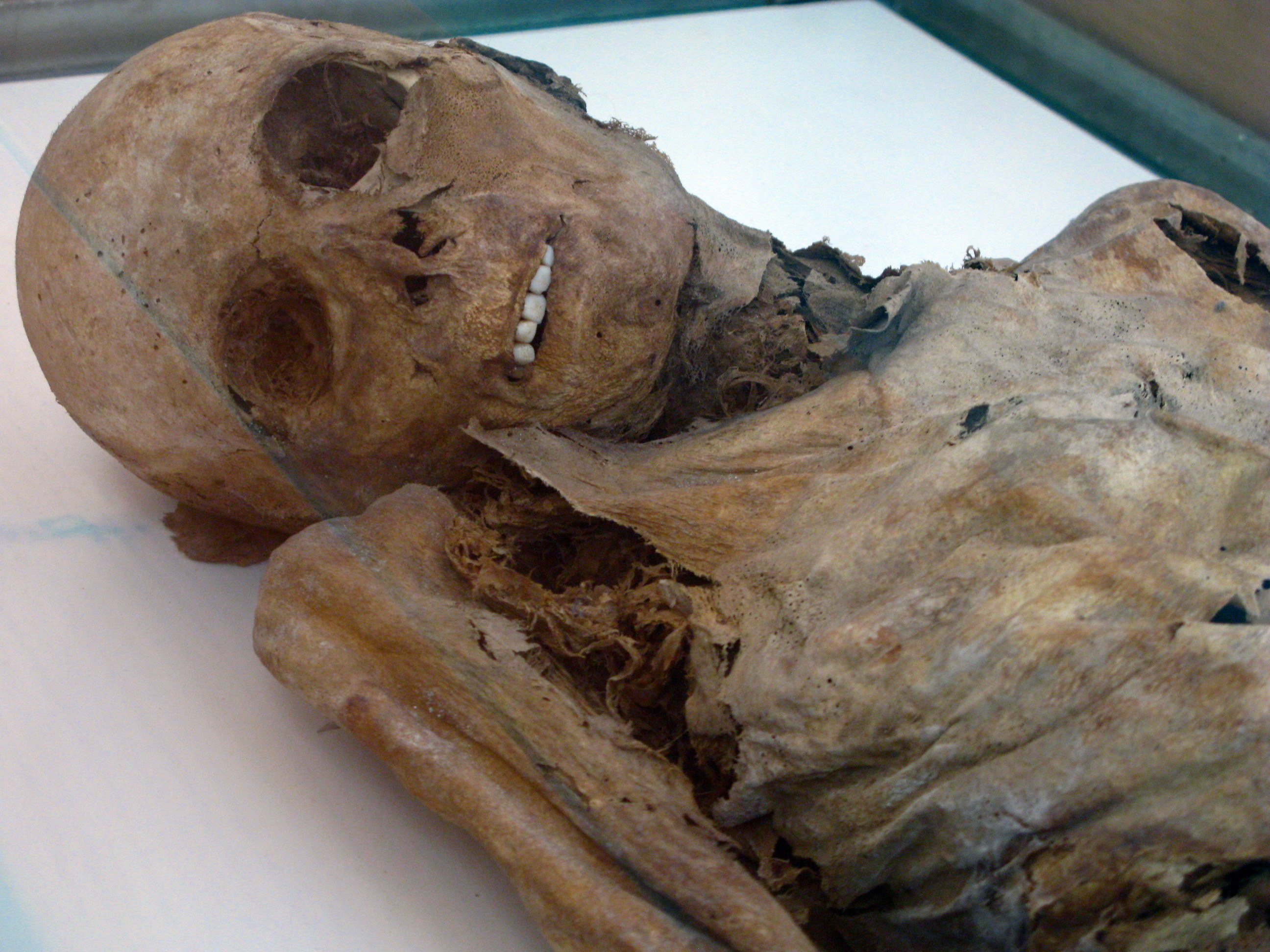 Mummy in the roman cemetery chapel nearby cathedral Sant'Andrea Apostolo in Venzone / Tagliamento valley / Friuli-Venezia Giulia / Italy / EU. Inscription: Figlia (dati anagrafici e di esumazione sconosciuti)